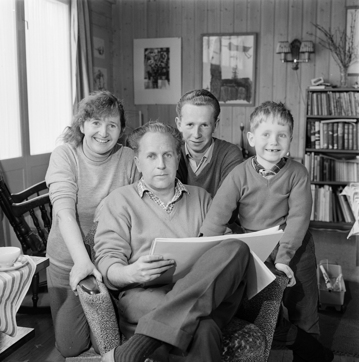 At home with norwegian author Anne-Cath. Vestly (1920-2008), her illustrator and husband Johan Vestly, and their sons Jo and Håkon. 1964